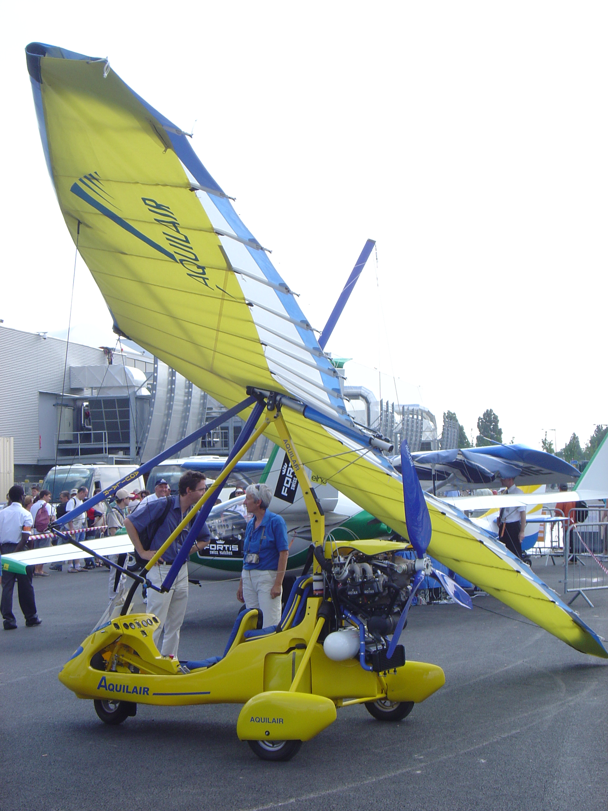 Some light aircraft Paris Air Show, 2005